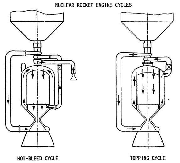 Two feed cycles designed for the NERVA rocket